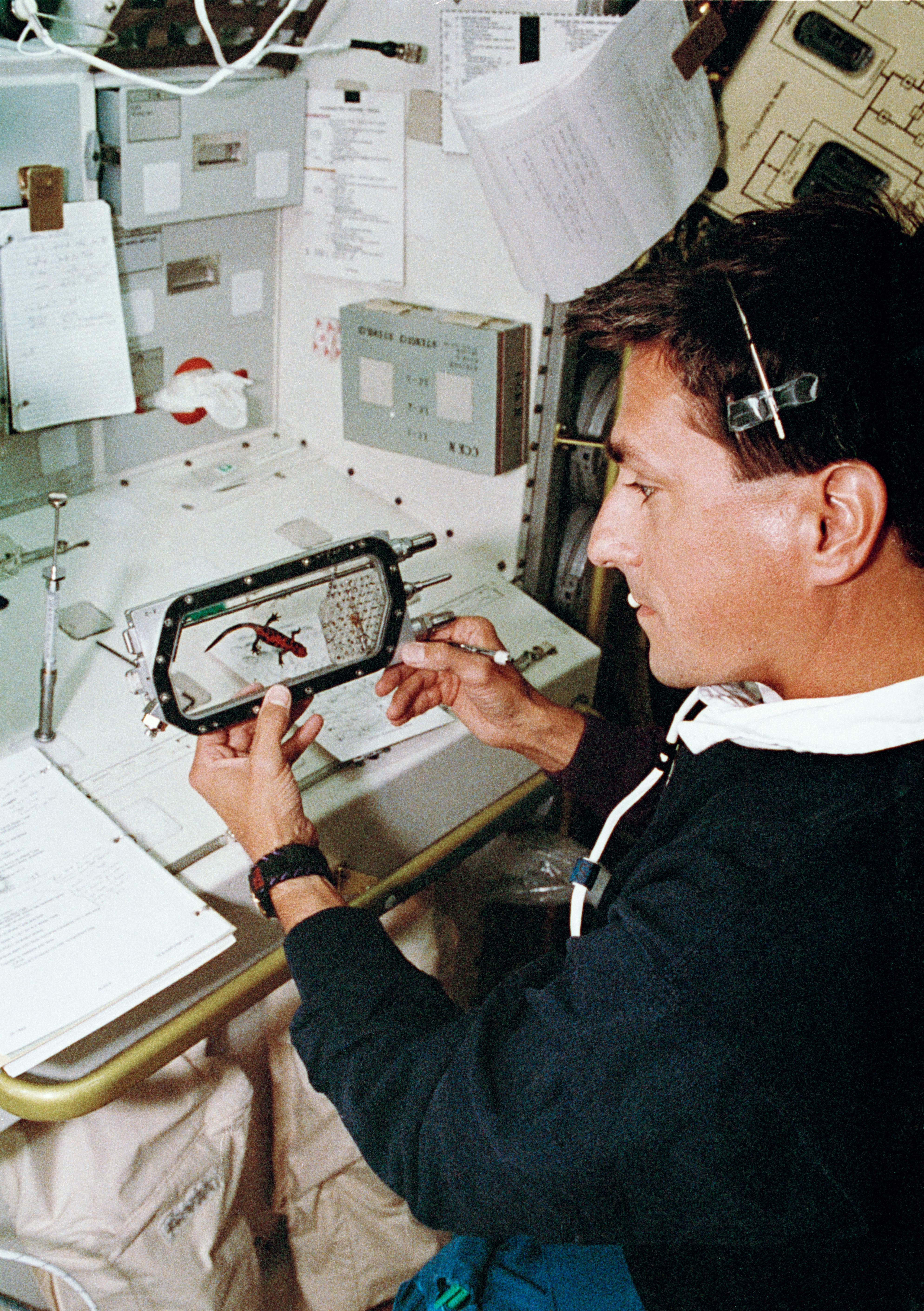 STS-65 Mission Specialist Donald A. Thomas is seen in the spacelab science module at the Rack 1 Workbench making an observation of one of the newts. Smaller organisms, such as the newts, are able to develop from embryos and hatch during the mission as part of an overall program to determine if development occurs normally in the space environment. Temporary home for the newts, the Aquatic Animal Experiment Unit (AAEU) (out of frame) also contained medaka and goldfish. Thomas joined five other NASA astronauts and a Japanese payload specialist for two weeks of experimenting onboard the Space Shuttle Columbia, Orbiter Vehicle (OV) 102, in Earth orbit.